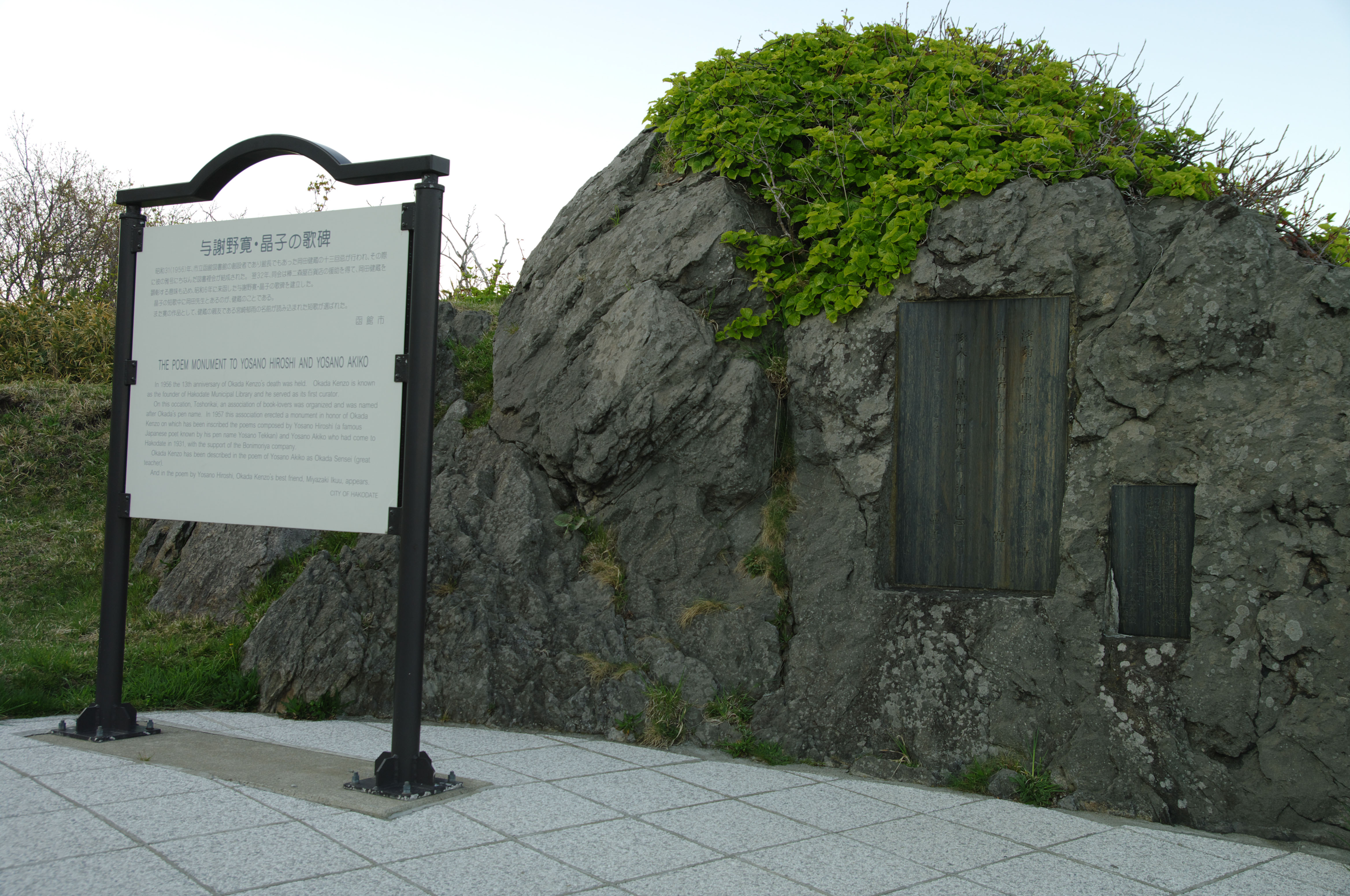 The poem monument to Yosano Hiroshi and Yosano Akiko in Hakodate, Hokkaido, Japan